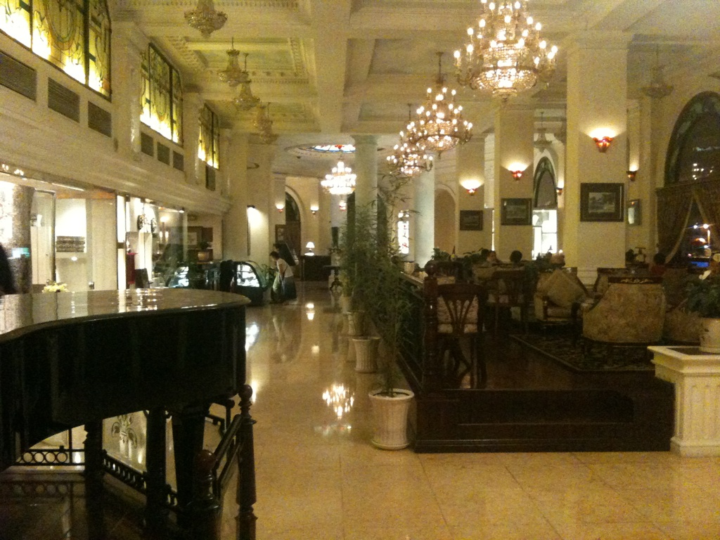 Majestic Hotel Saigon, GF